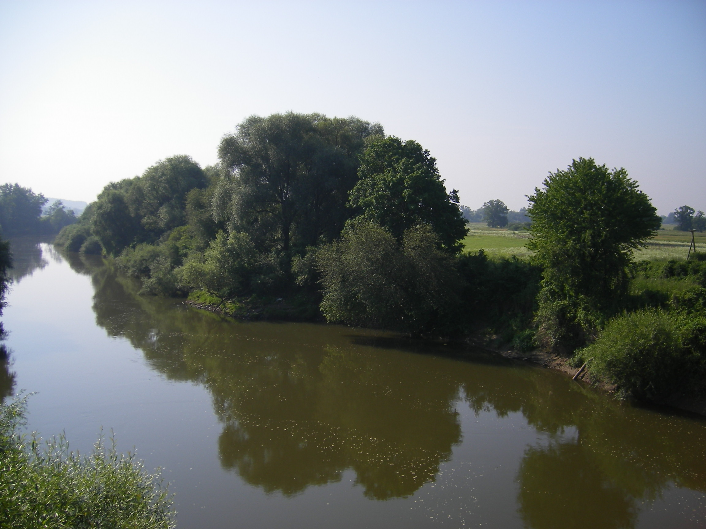 Dnester river near Rozvadiv (Mikolayiv Raion)